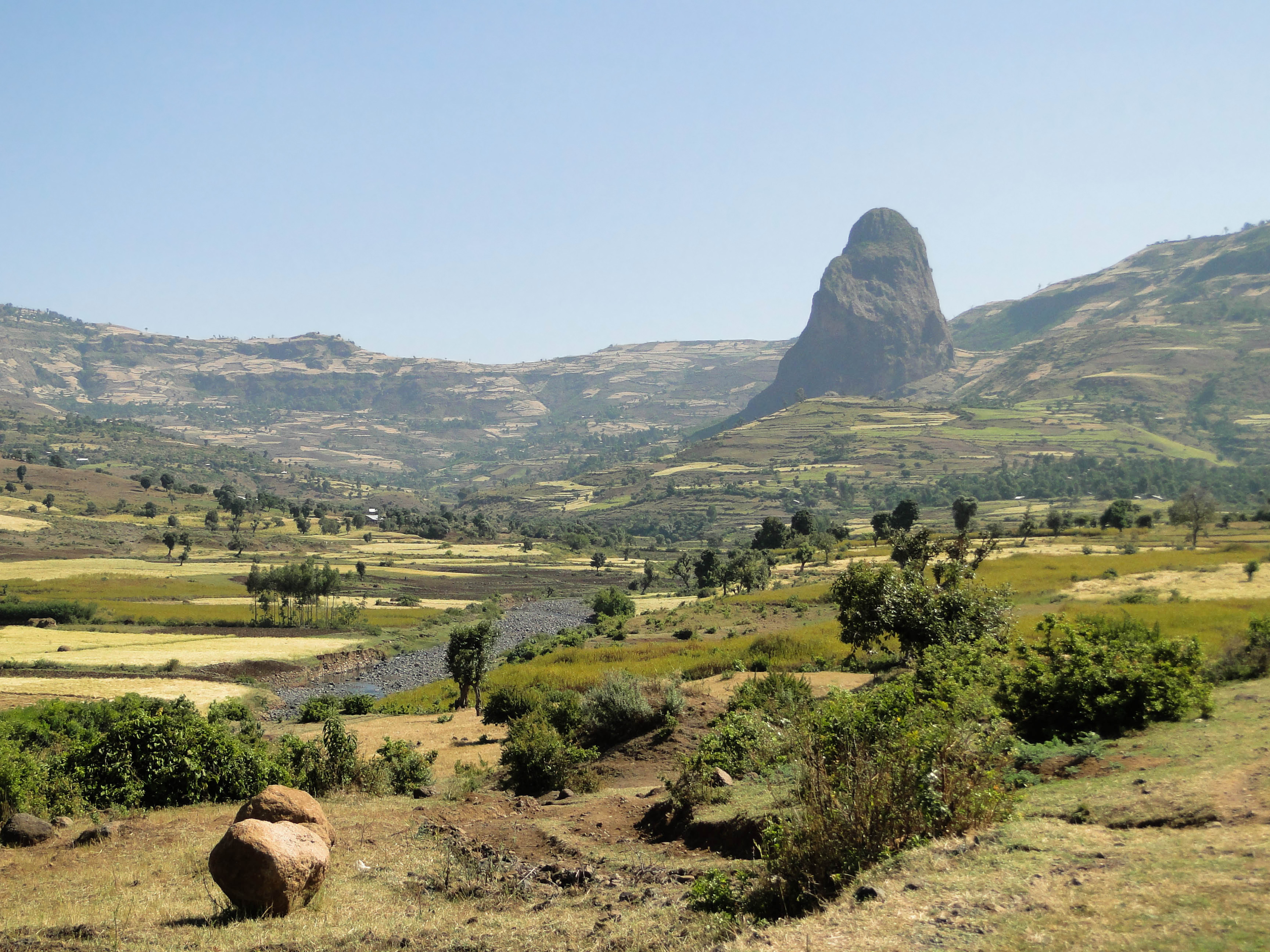 Landscape of Amhara Region, Ethiopia